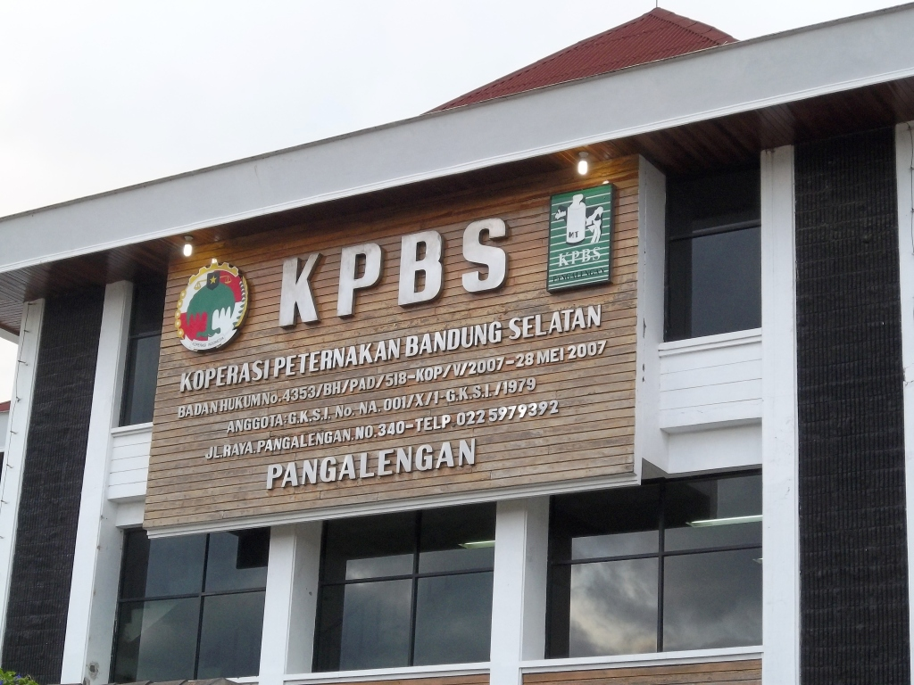 KPBS Pangalengan is a dairy farm in Indonesia.